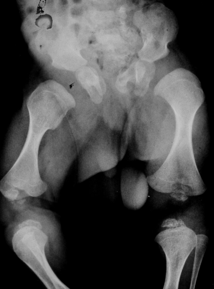 X-Ray of child with Kniest-syndrome